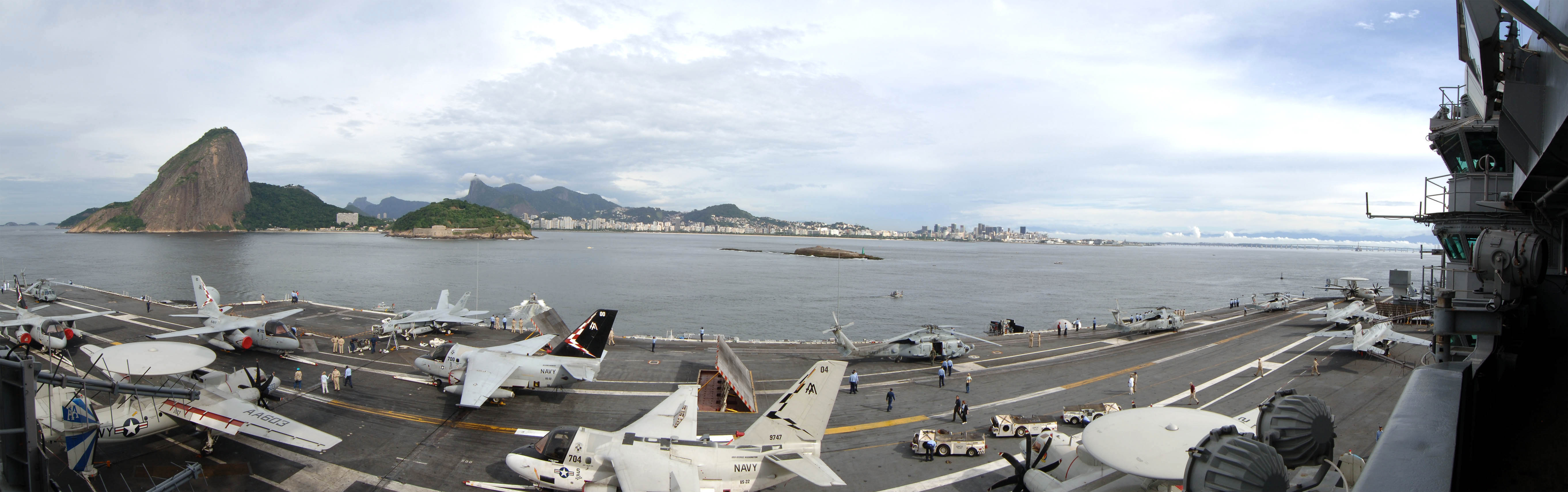 Panoramic view of the flight deck of the U.S. aircraft carrier USS George Washington (CVN-73) at Rio de Janeiro, Brazil, on 21 April 2008. Several planes of Carrier Air Wing 17 (CVW-17) are visible: Four Lockheed S-3B Vikings of sea control squadron VS-22 Checkmates, three Sikorsky SH-60F and one HH-60H Seahawk helicopter of helicopter anti-submarine squadron HS-15 Red Lions, three Grumman E-2C Hawkeyes of airborne early squadron VAW-121 Bluetails, two Grumman EA-6B Prowlers of tactical eletronic warfare squadron VAQ-132 Scorpions, and an McDonnell Douglas F/A-18C Hornet of VFA-131 Wildcats. VFA-131 is normally assigned to CVW-7 and wears the tail code "AG" instead of "AA" of CVW-17.